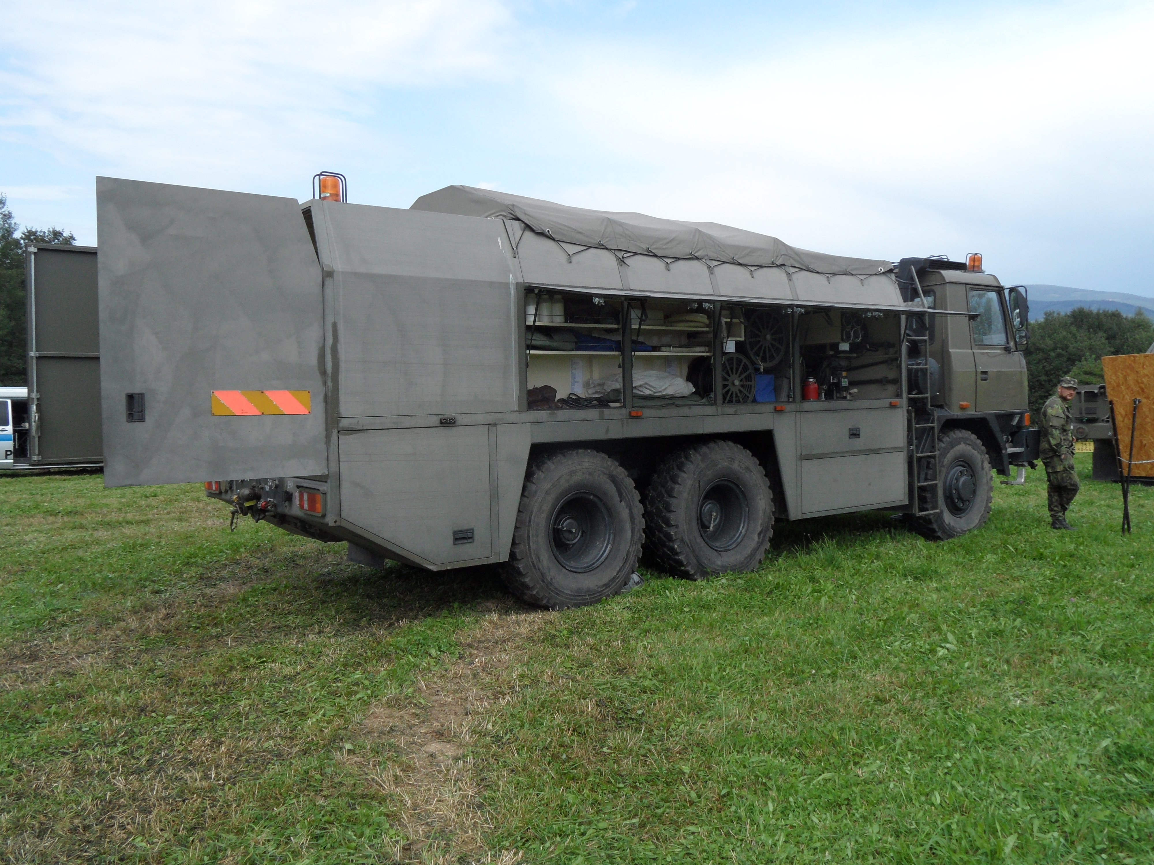 Akce Cihelna 2014 H05. Static Presentations: Decontamination Vehicle MDA, Králíky, Ústí nad Orlicí District, the Czech Republic.